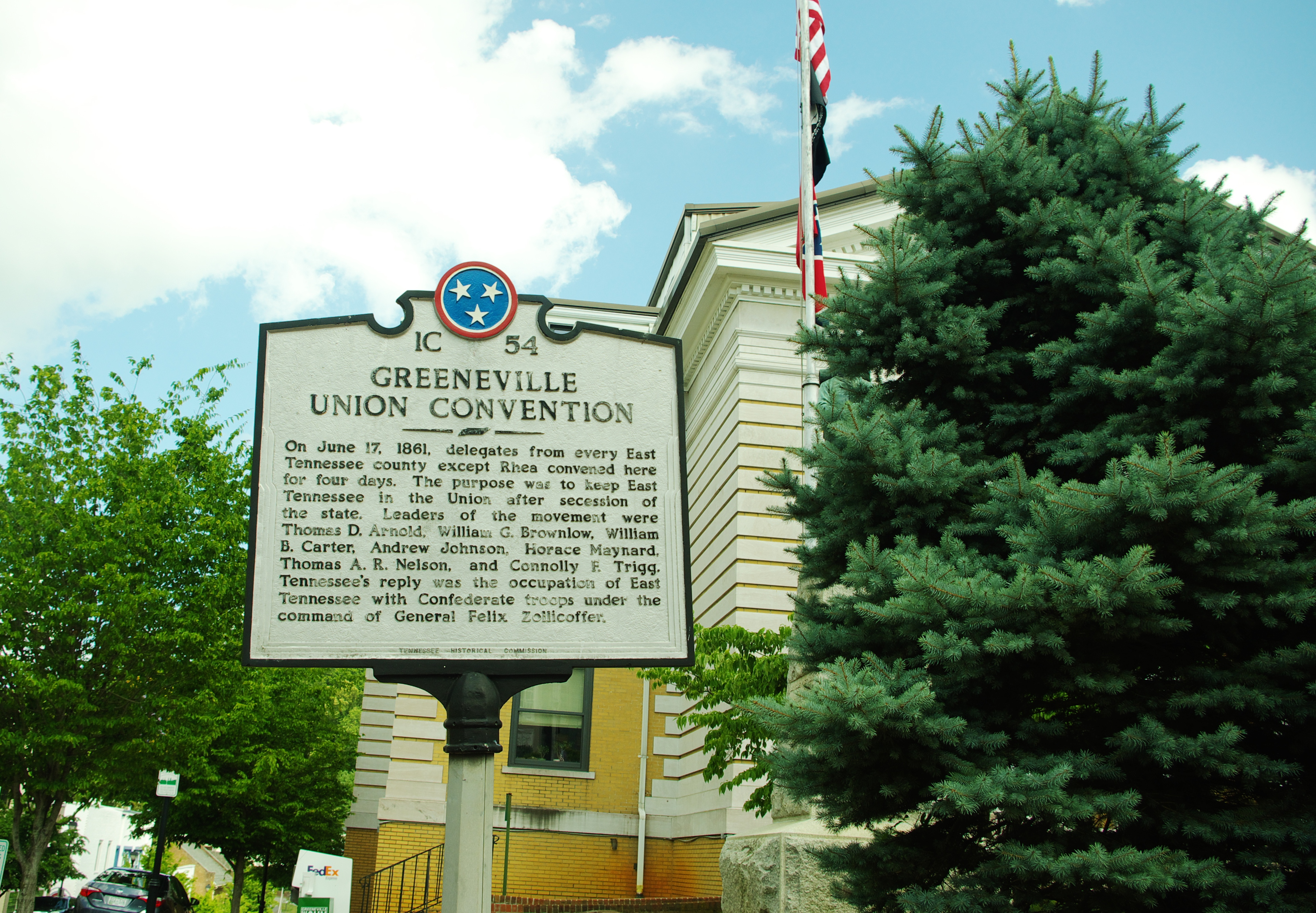 Tennessee Historical Commission marker in Greeneville, Tennessee, United States, recalling the "Greeneville Union Convention," or the Greeneville session of the East Tennessee Convention, which took place in the city on the eve of the U.S. Civil War in June 1861. This convention attempted to form a separate state in East Tennessee that would have remained in the Union.